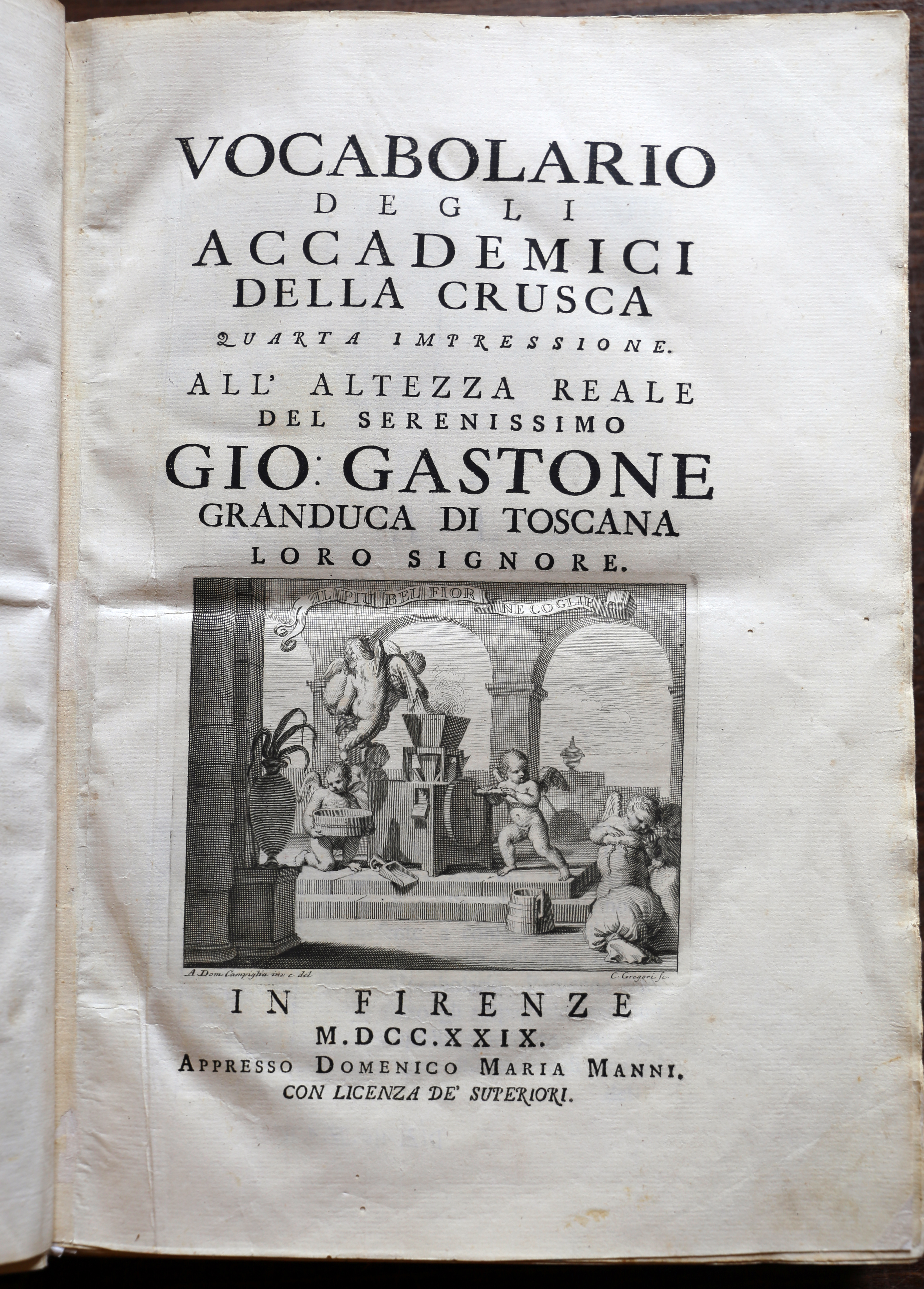 Accademia della Crusca Library Vocabolario degli Accademici della Crusca Firenze, Domenico Maria Manni, 1729-1738 6 volumi Quarta edizione ufficiale Il vocabolario ebbe un successo mai registrato per le precedenti edizioni. Il primo volume si apre con una dedicatoria finalmente a uno dei Medici, il granduca Gian Gastone, da parte di Alamanno Salviati e con una prefazione del Bottari; l’ultimo volume si chiude con un indice delle abbreviature e delle correzioni redatto da Rosso Antonio Martini. Ora l’Accademia non propone più soltanto un modello di norma linguistica e uno strumento per la sua applicazione, ma anche un ampio thesaurus della lingua letteraria italiana. L’impostazione del vocabolario rivela un’inedita, fino ad allora, attenzione ai livelli d’uso, non tradendo però la fedeltà ai principi d’autorità letteraria fiorentina. Bella edizione: pregevoli le testatine dell’incisore Carlo Gregori che ritraggono sia gli accademici al lavorio che l’attività tipografica, ecc…